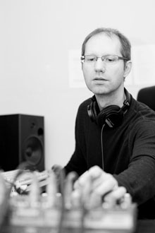 Artist image of Bryan Tewell Hughes, composer/producer of Electronic music project AeTopus, from official website.